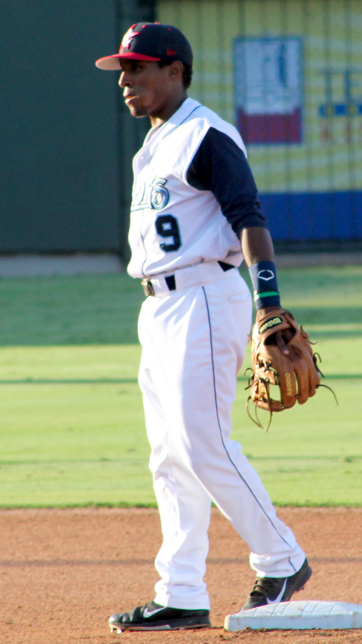 Tony Kemp, infielder with the minor league Corpus Christi Hooks, during a July 2014 game.